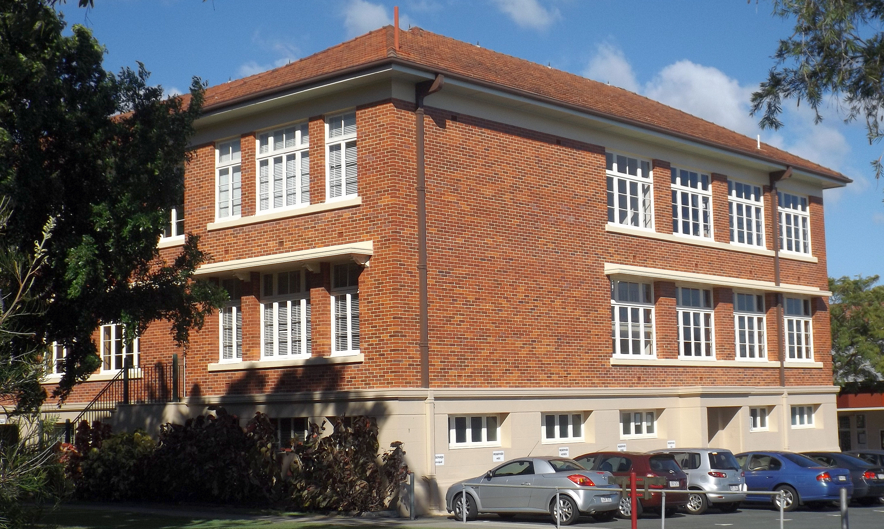 Photo of Stafford State School from Webster Road at Stafford, Brisbane, Queensland, Australia.